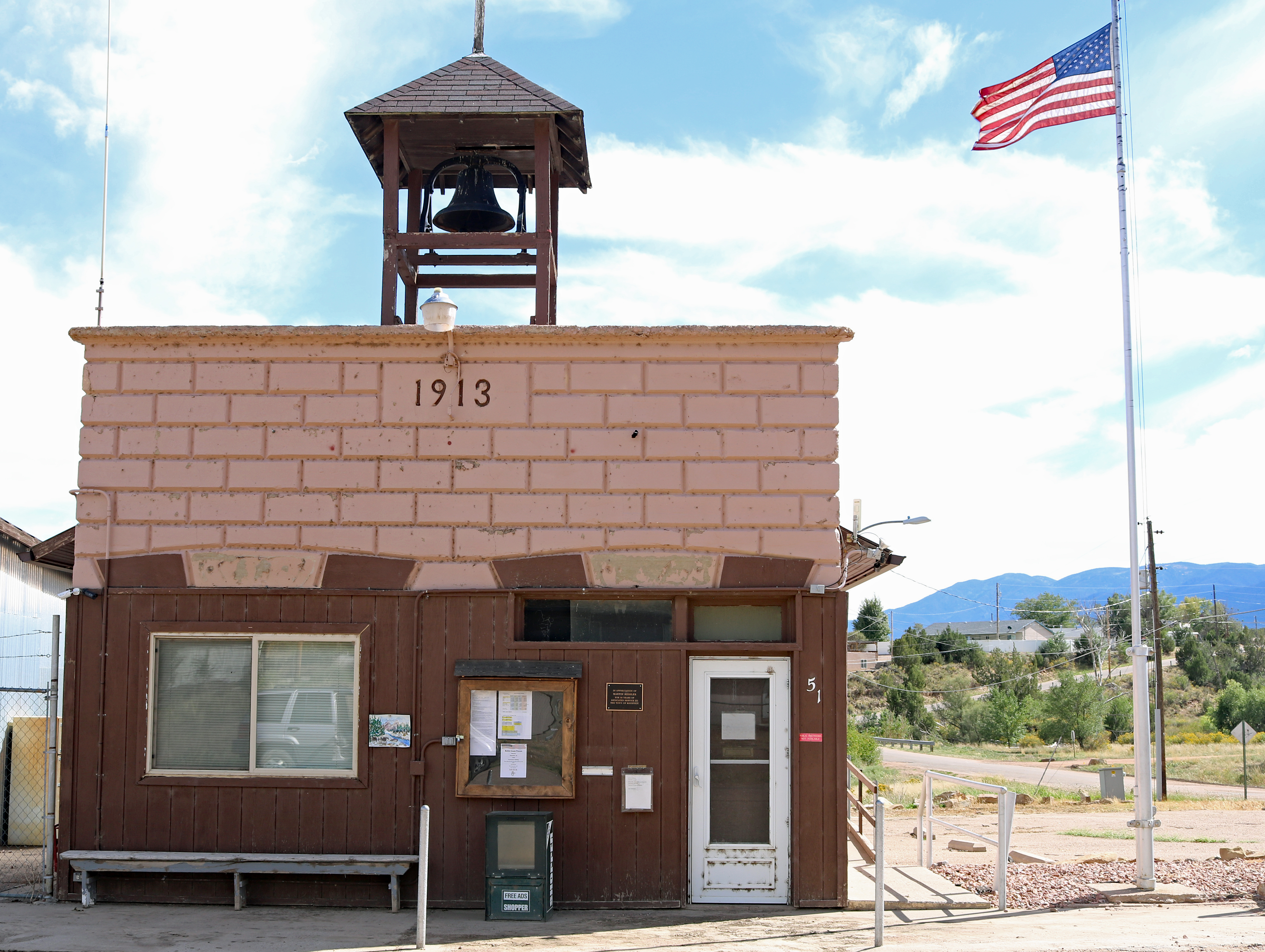 The Rockvale, Colorado town hall, located at 510 Railroad Street in Rockvale, Colorado.